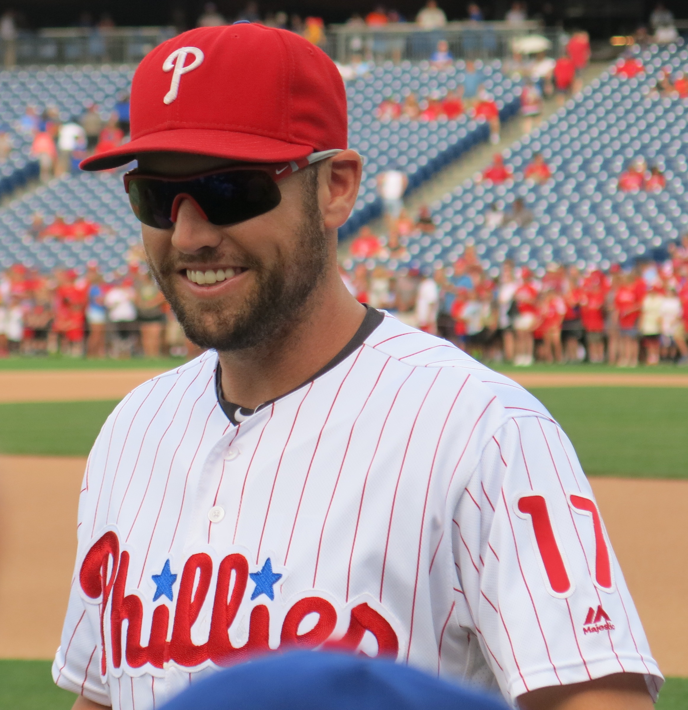 Peter Bourjos of the Philadelphia Phillies, July 16, 2016.